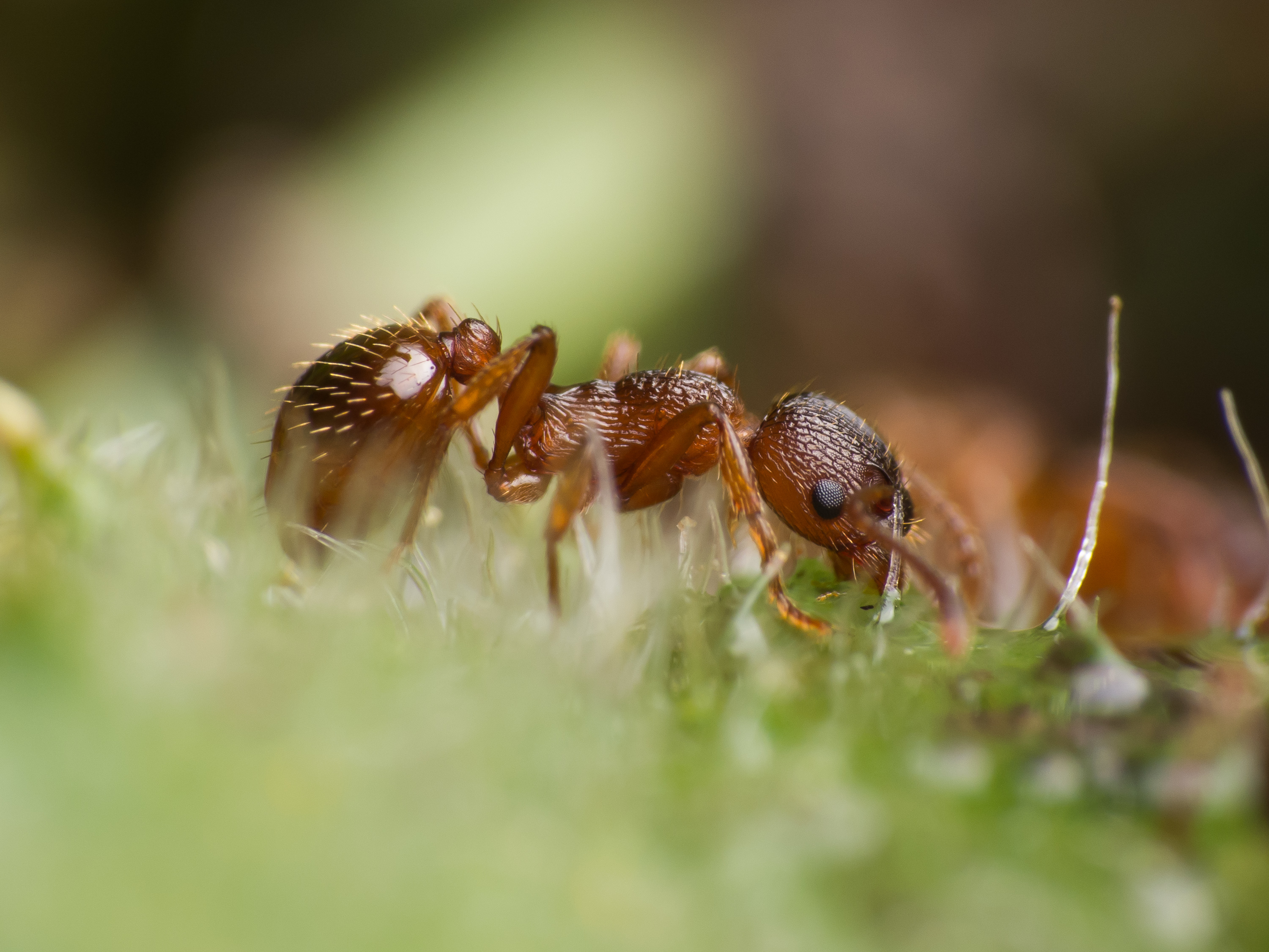 Myrmica sp. worker, lateral view.